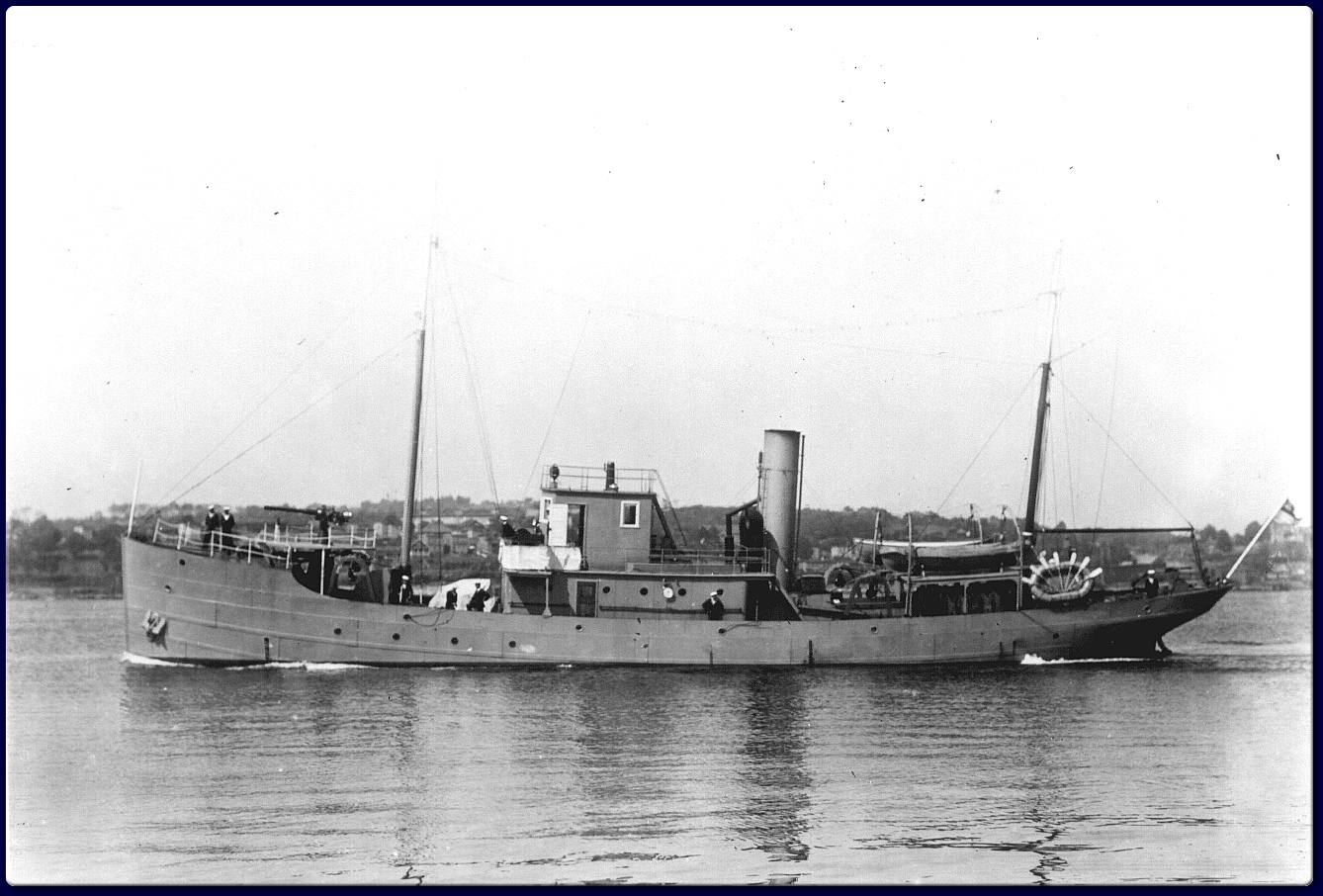 Photograph of Canadian Battle class naval trawler HMCS Ypres.